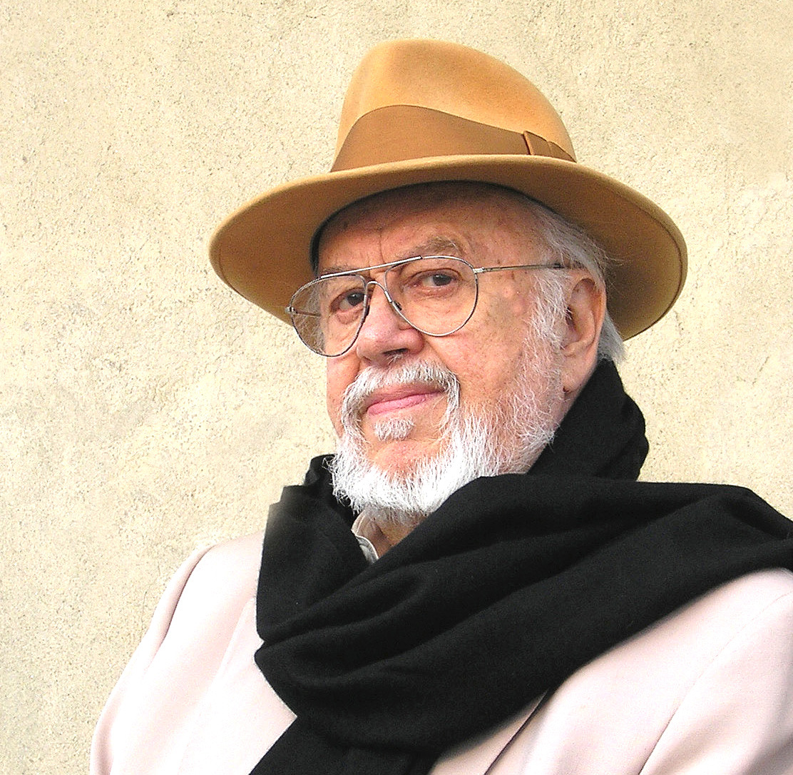 Sergiu Singer